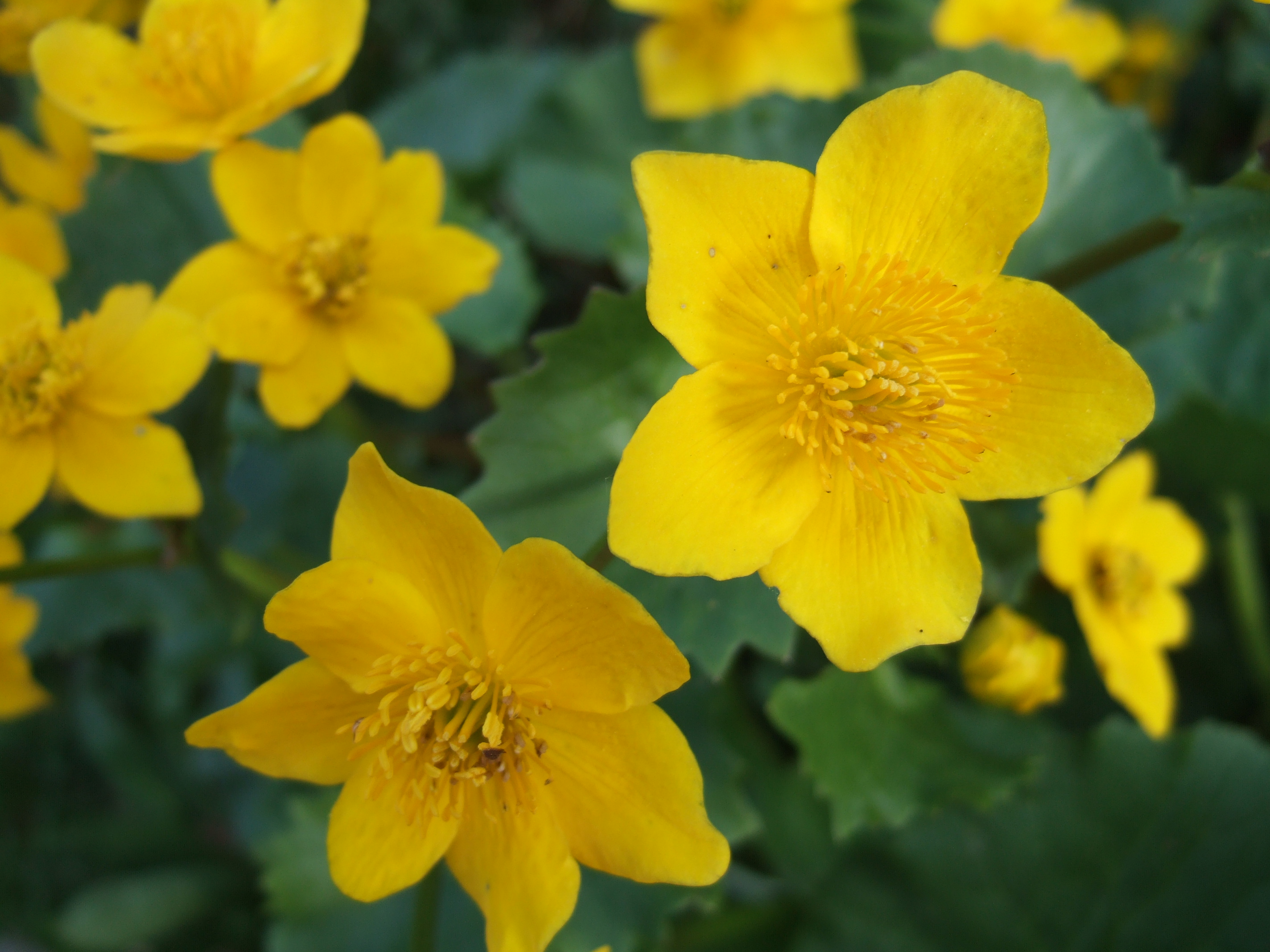 Close-up of flowers of Caltha palustris.